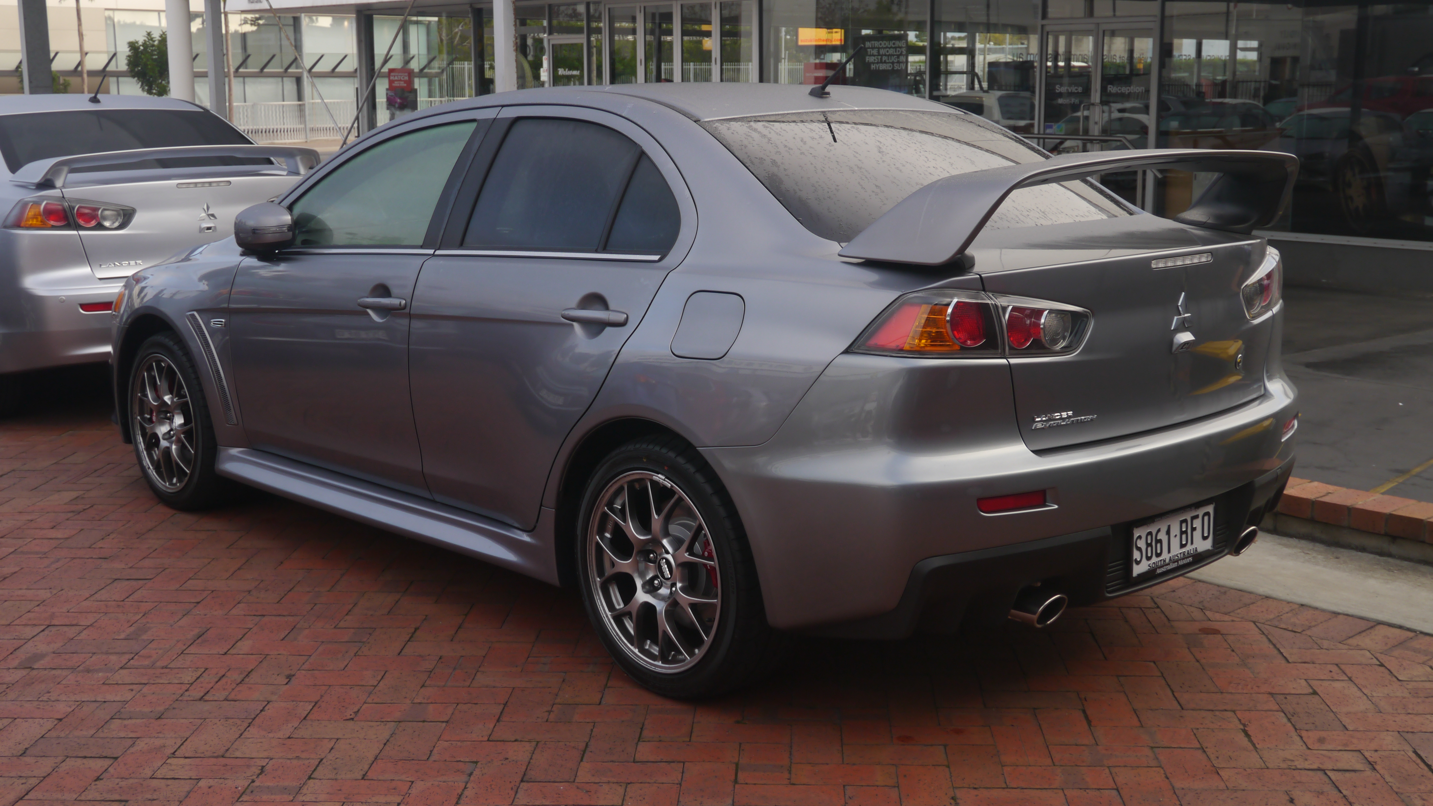 2015 Mitsubishi Lancer Evolution